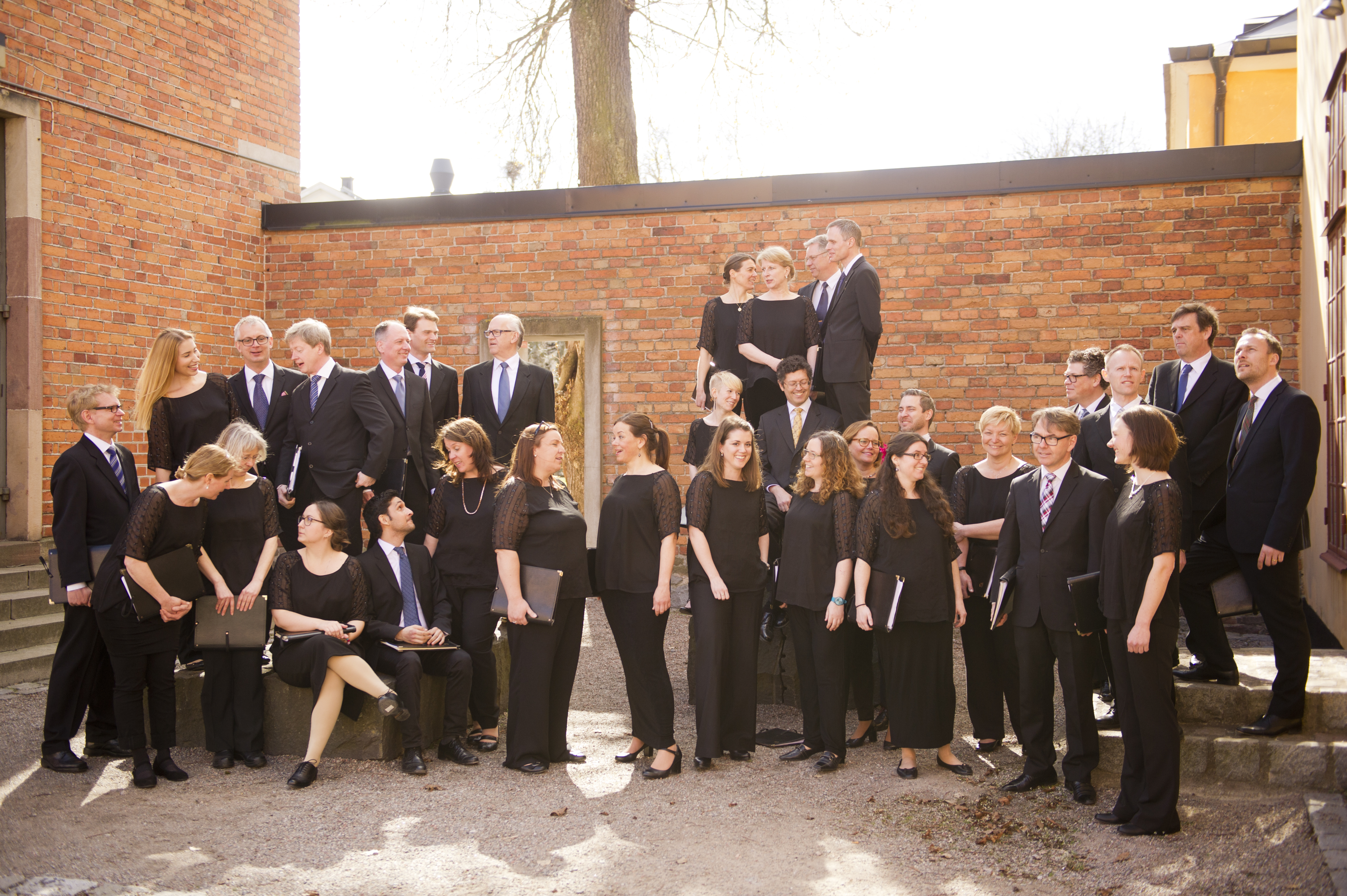 Gustaf Sjökvist chamber choir